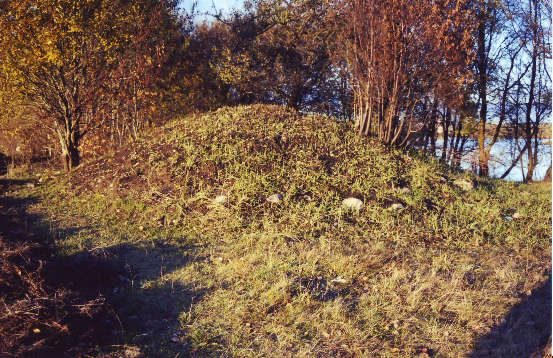 Padvariai barrow, Kretinga district, Lithuania